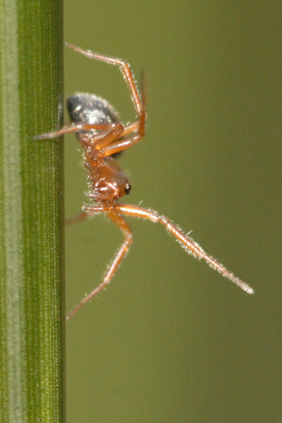 Walckenaeria acuminata from Commanster, Belgian High Ardennes .